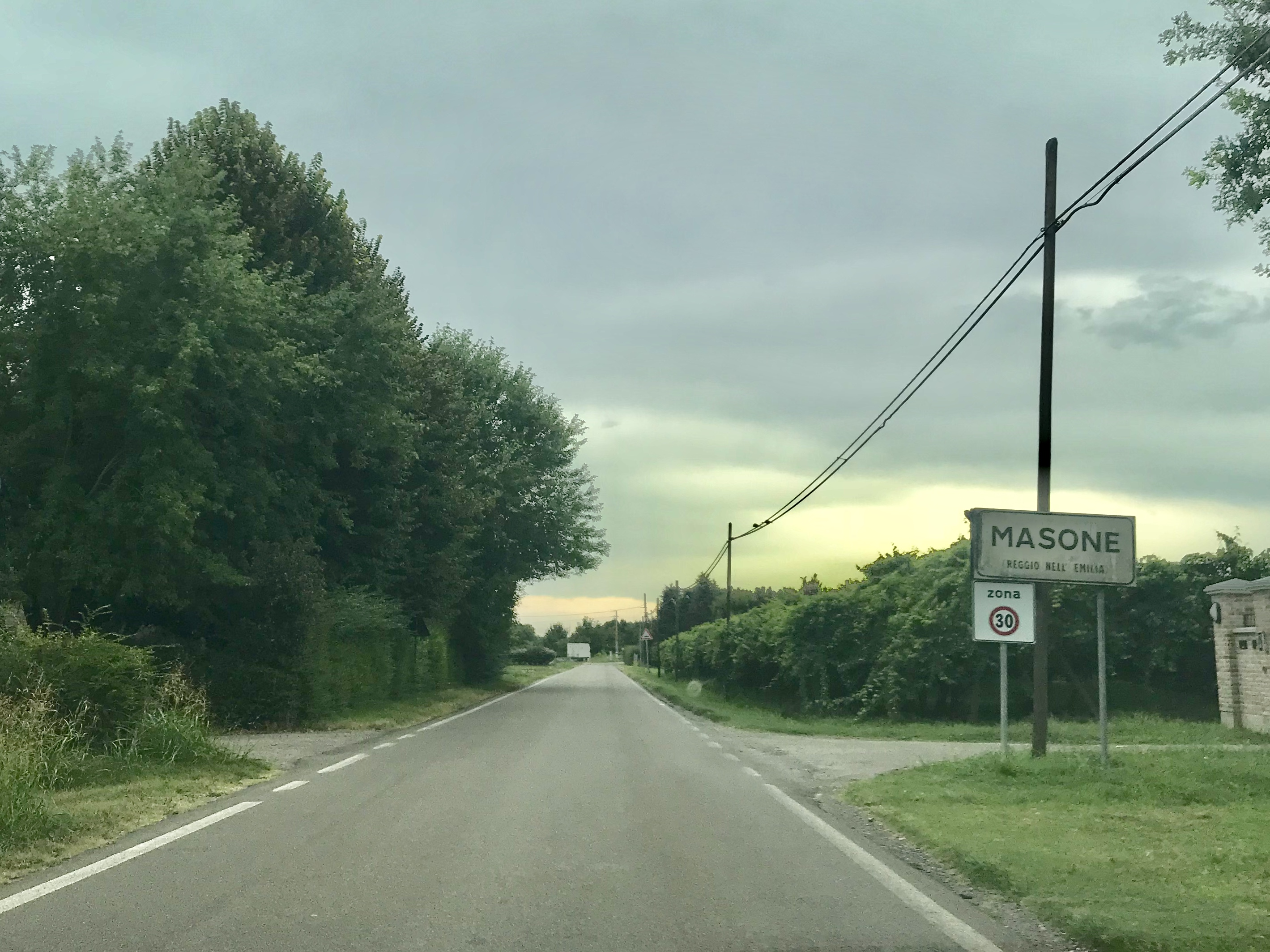 Masone’s landscape